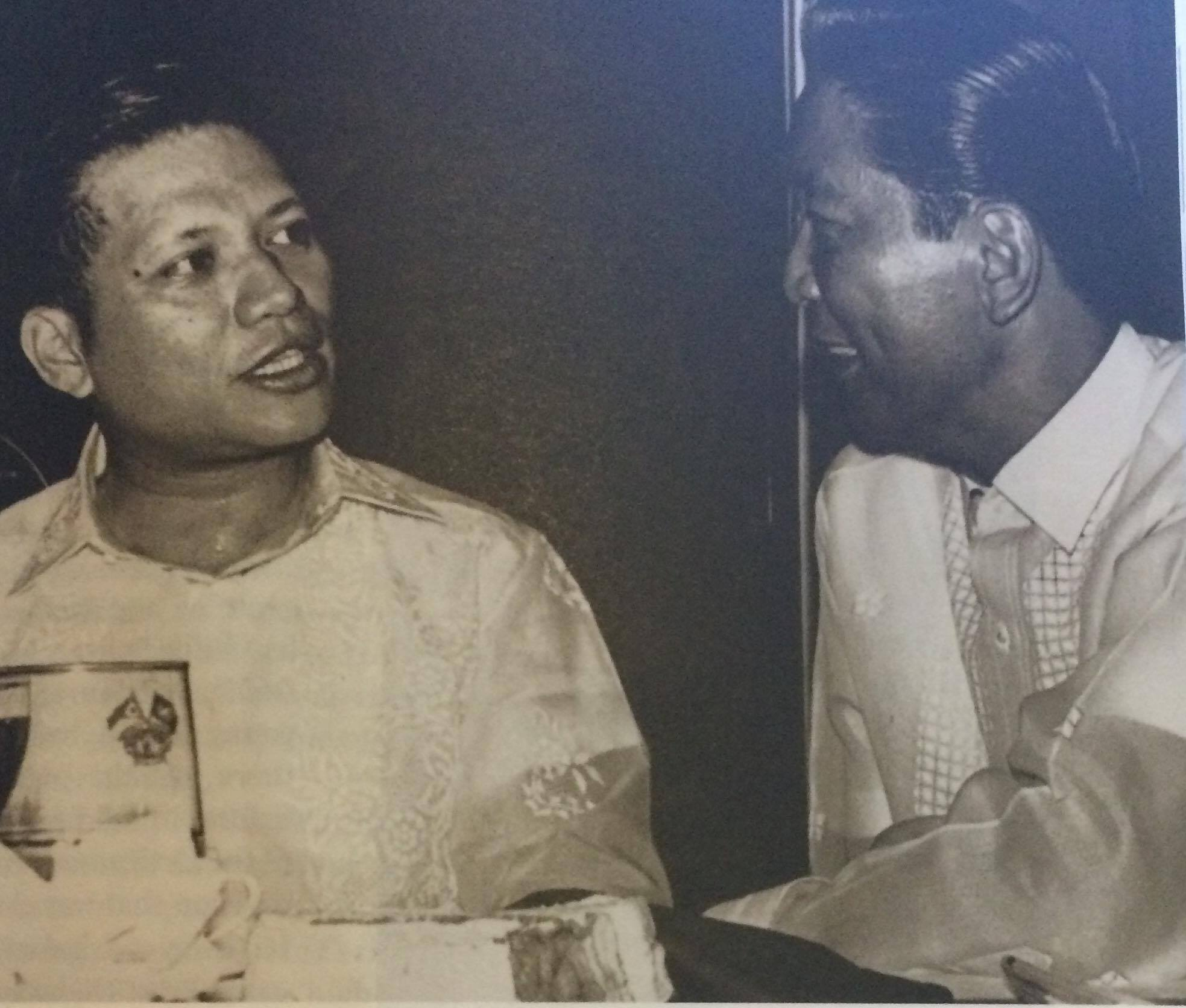 max eyes to eye with marcos